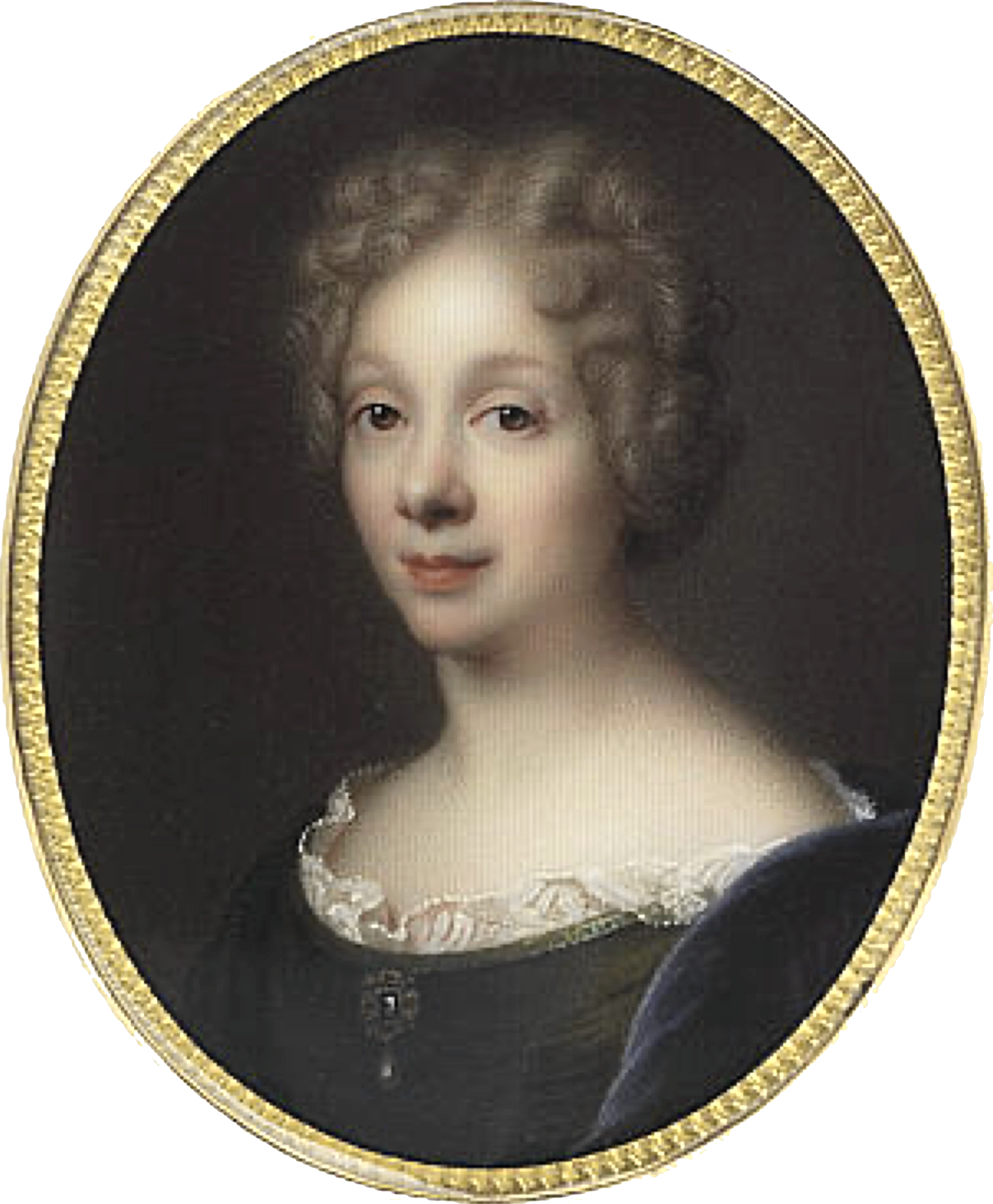 Anne Dacier (1647–1720), French scholar, translator, commentator and editor of the classics